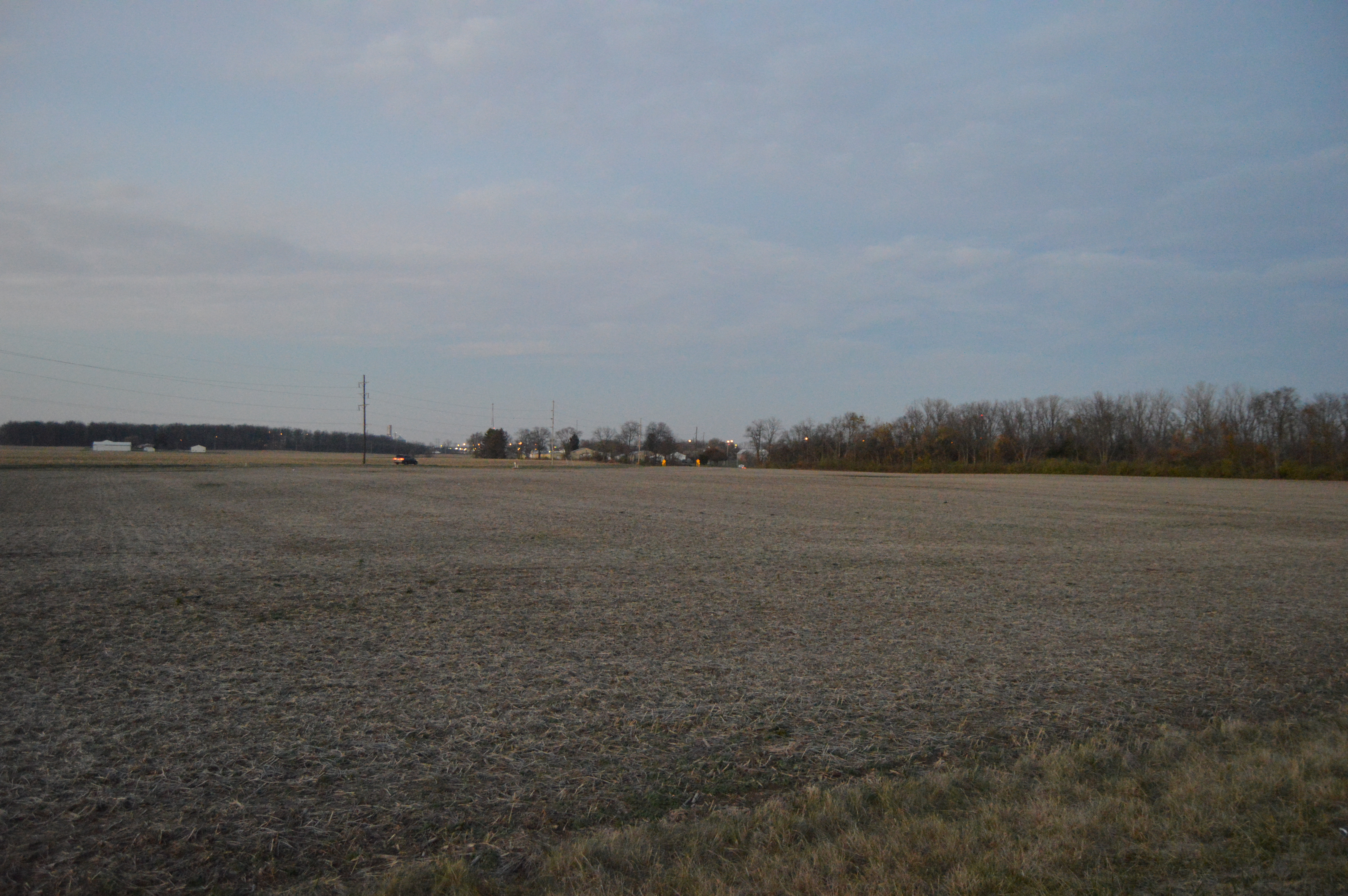 Fields on the northern side of Schenck Road just east of the Fair Road intersection (lights in the distance are vehicles on Fair) southwest of Sidney in Clinton Township, Shelby County, Ohio, United States.